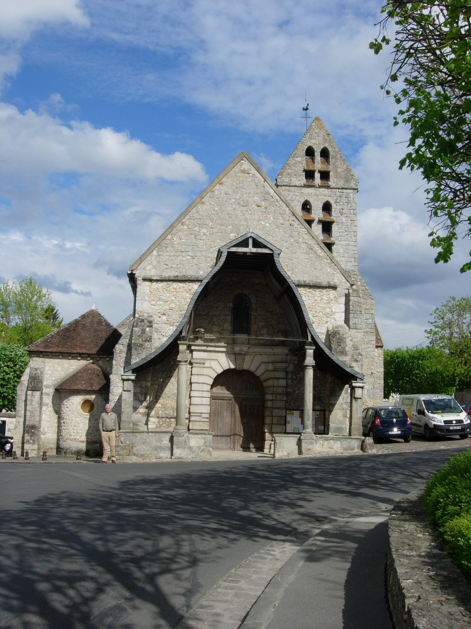 Saint Pierre church at Avon, Seine-et-Marne, France